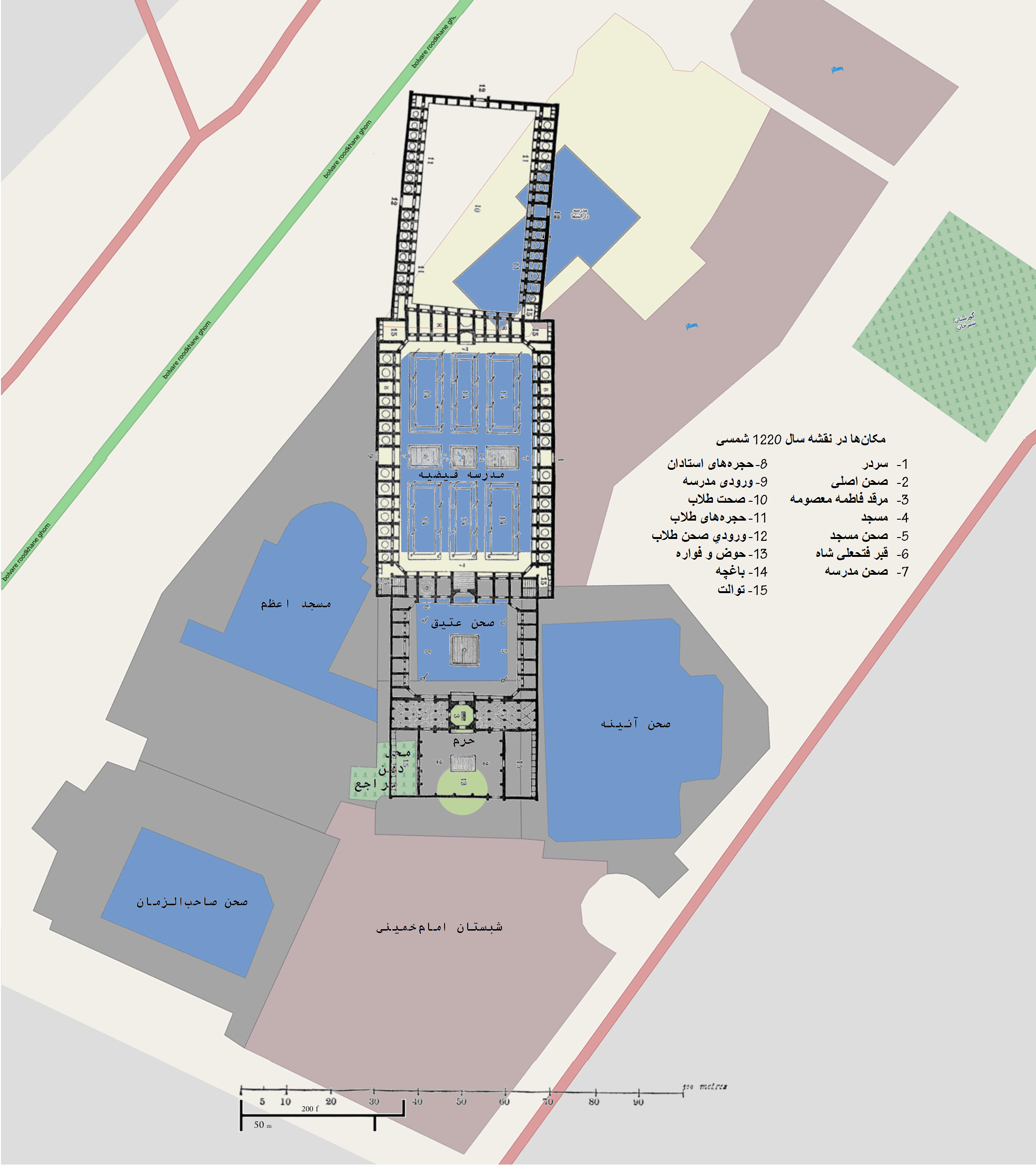 Fatima Masumeh Shrine, comparing map now and 1840